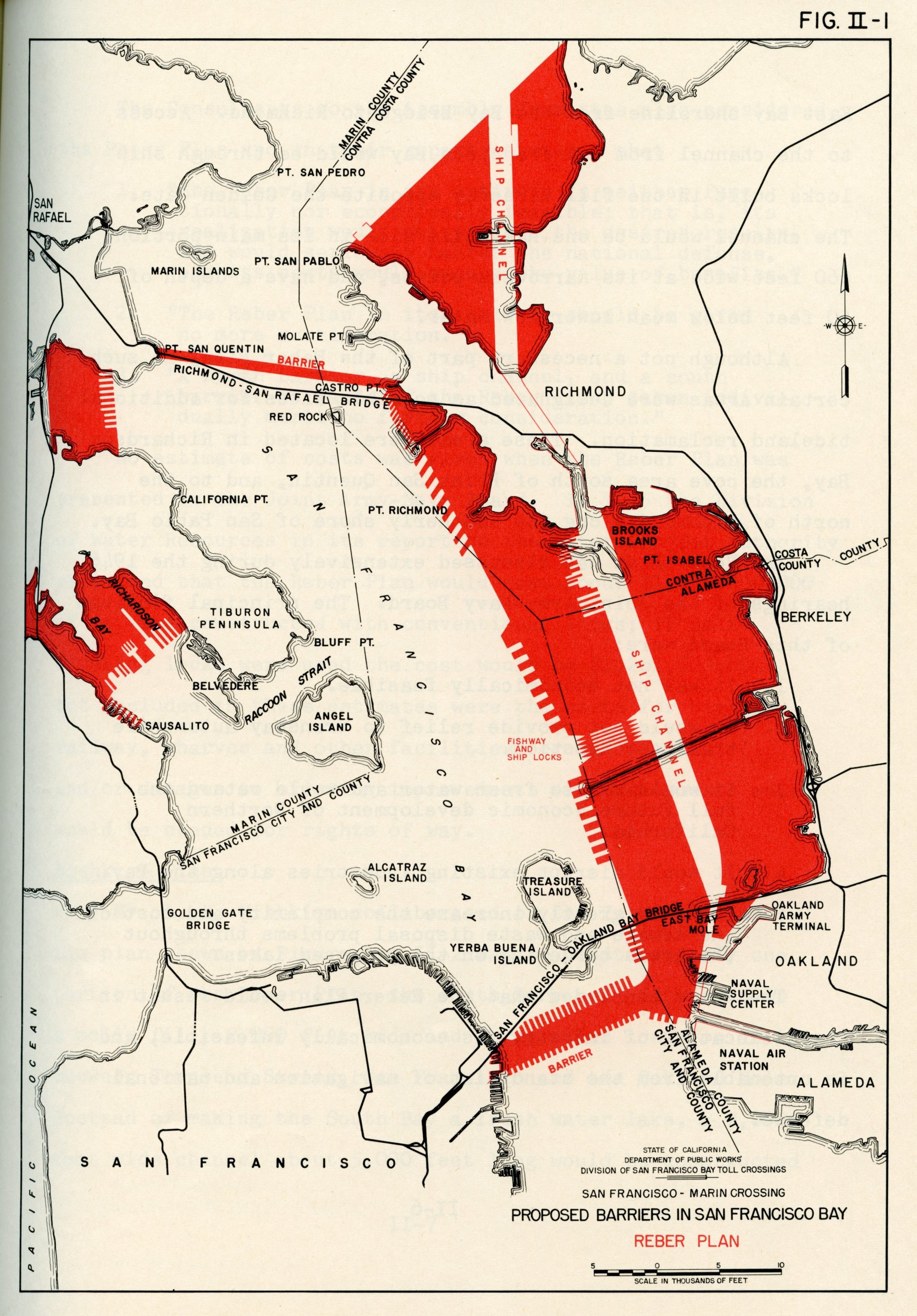 Proposed Barriers in San Francisco Bay: Reber Plan (1942). From the San Francisco-Marin Crossing Progress Report (1962).